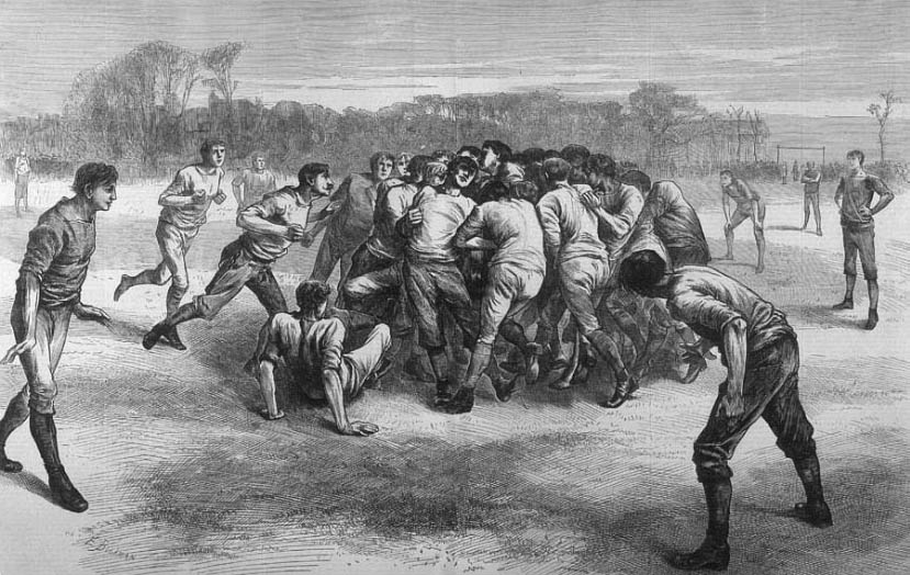 The Last Scrimmage, illustration about a rugby football game.